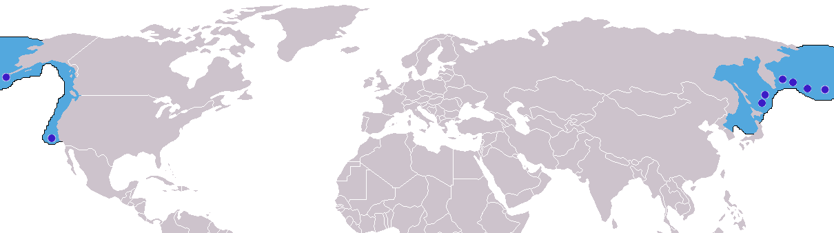 Distribution of the Northern Fur Seal (dark blue = breeding colonies; light blue = non-breeding individuals)